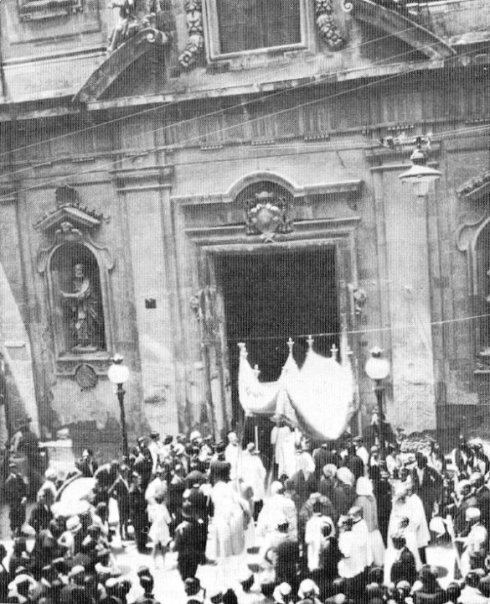 Procession of Corpus Domini 1927 Taranto